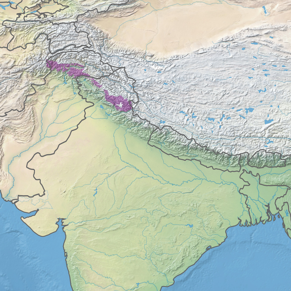 WWF Ecoregion PA1012 - Northwestern Himalayan alpine shrub and meadows